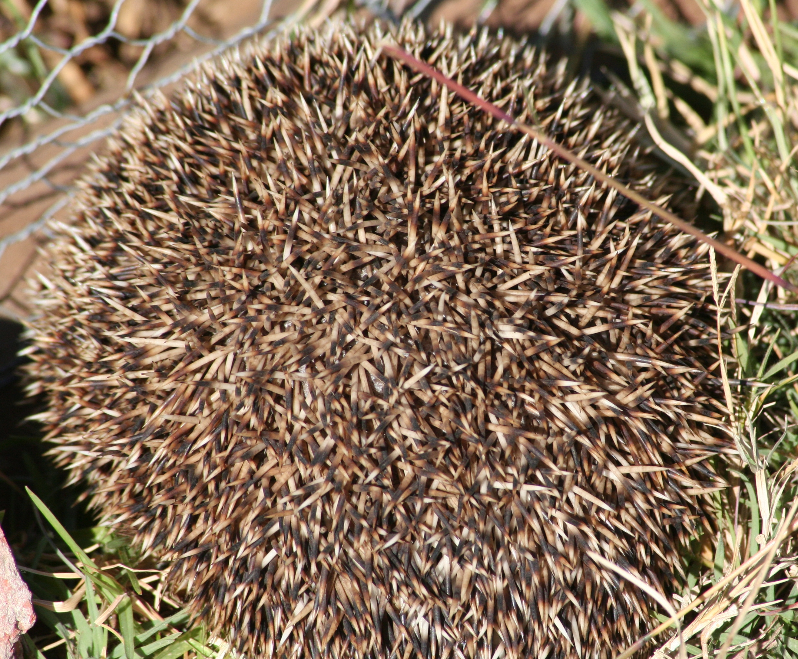 Southern African Hedgehog curled into a protective ball